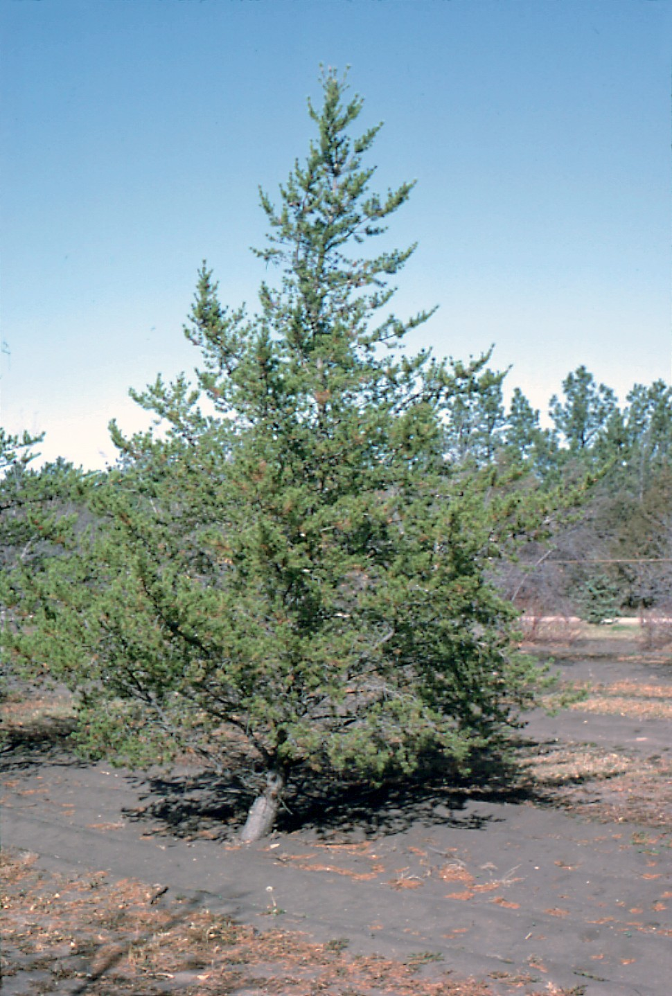 Jack Pine. Tree.